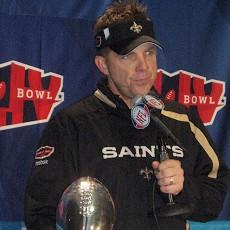 New Orleans Saints Coach Sean Payton after team's Super Bowl win, 7 Feb. 2010